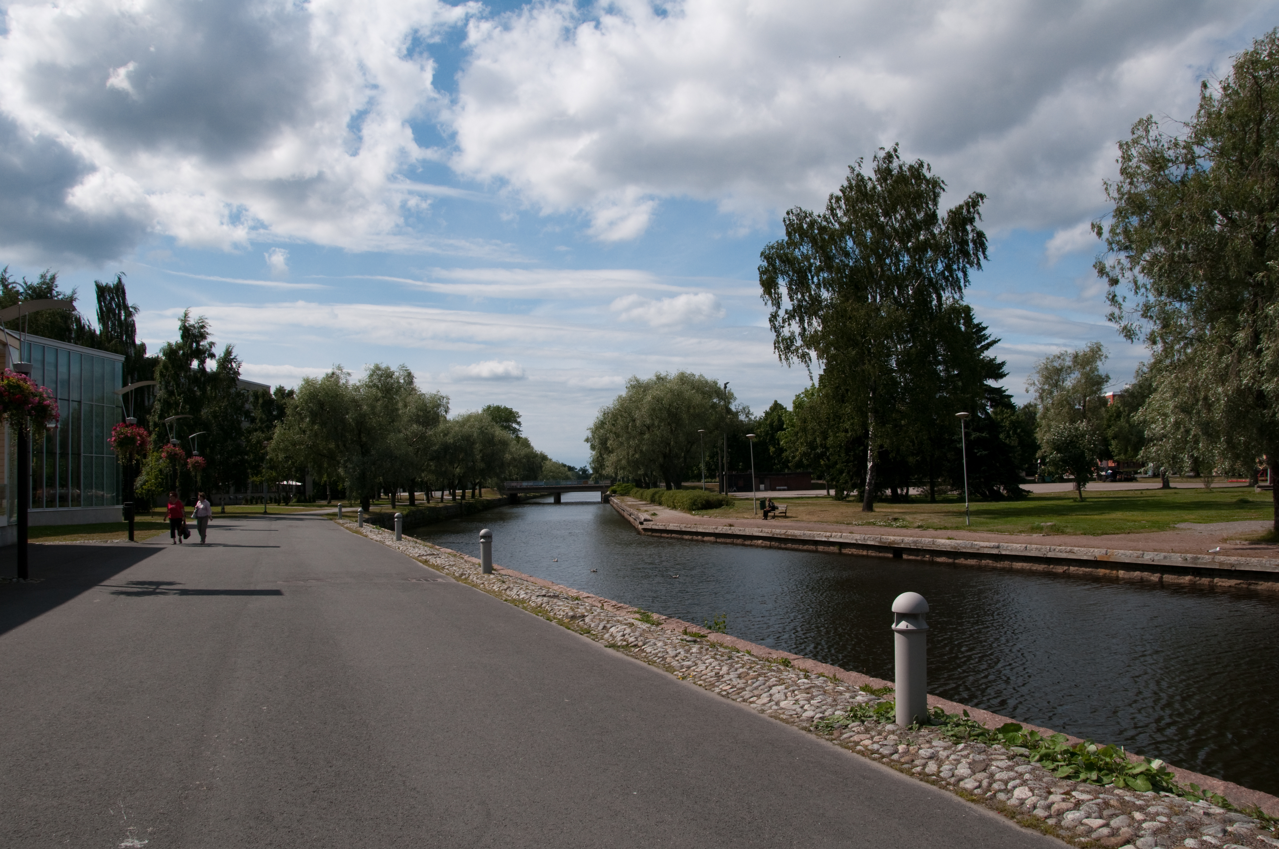 Canal in Rauma